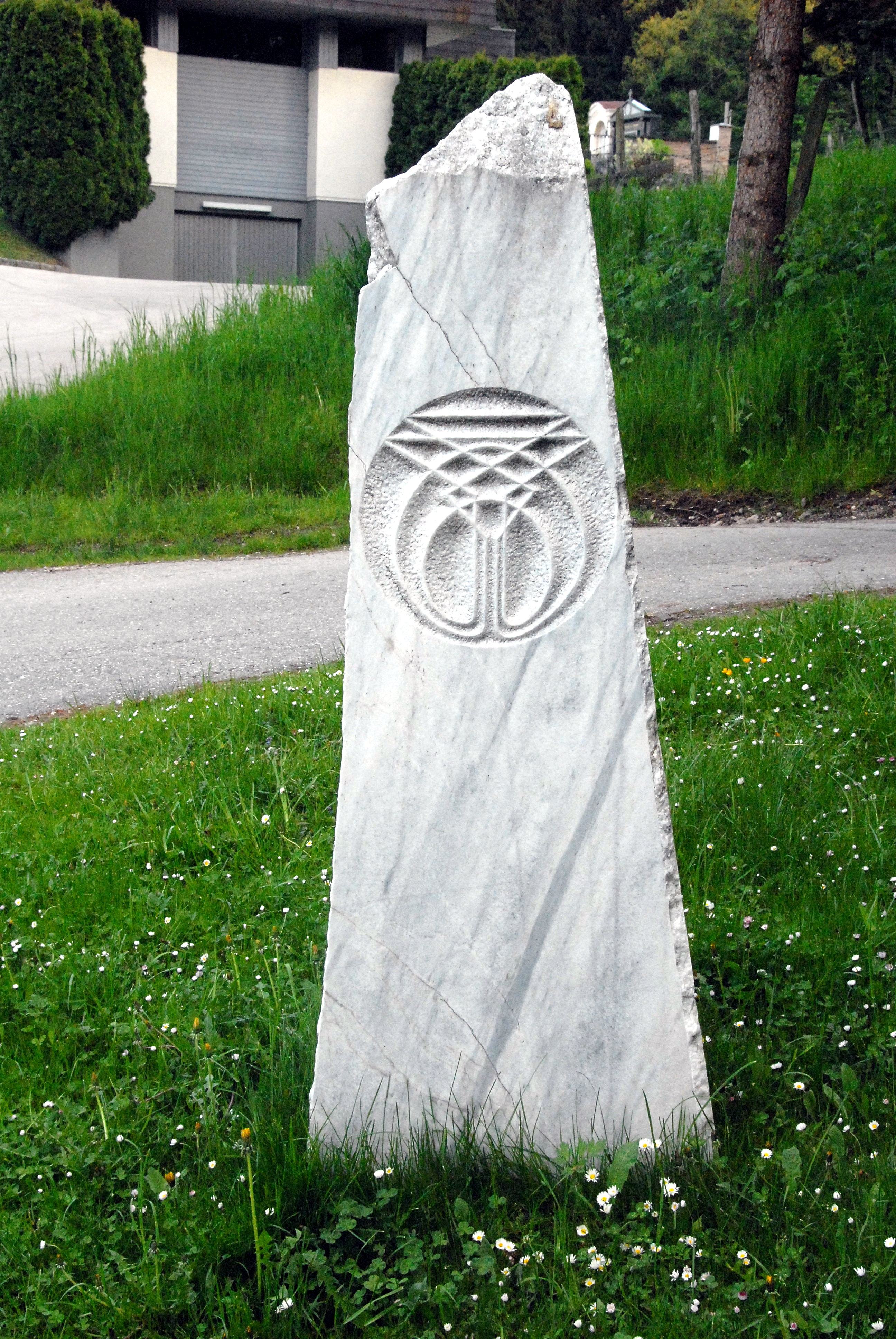 Lithopuncture with cosmogramme, carved in marble by Prof. Marko Pogačnik, country market town Saint Paul in the Lavanttal, municipality Saint Paul in the Lavanttal, district Wolfsberg, Carinthia / Austria / EU